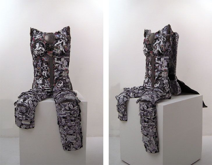 Knight at Ease 652 2009; 46x17x10”; wood, metal, leather, acrylicized paper, archival inks, and Velcro straps